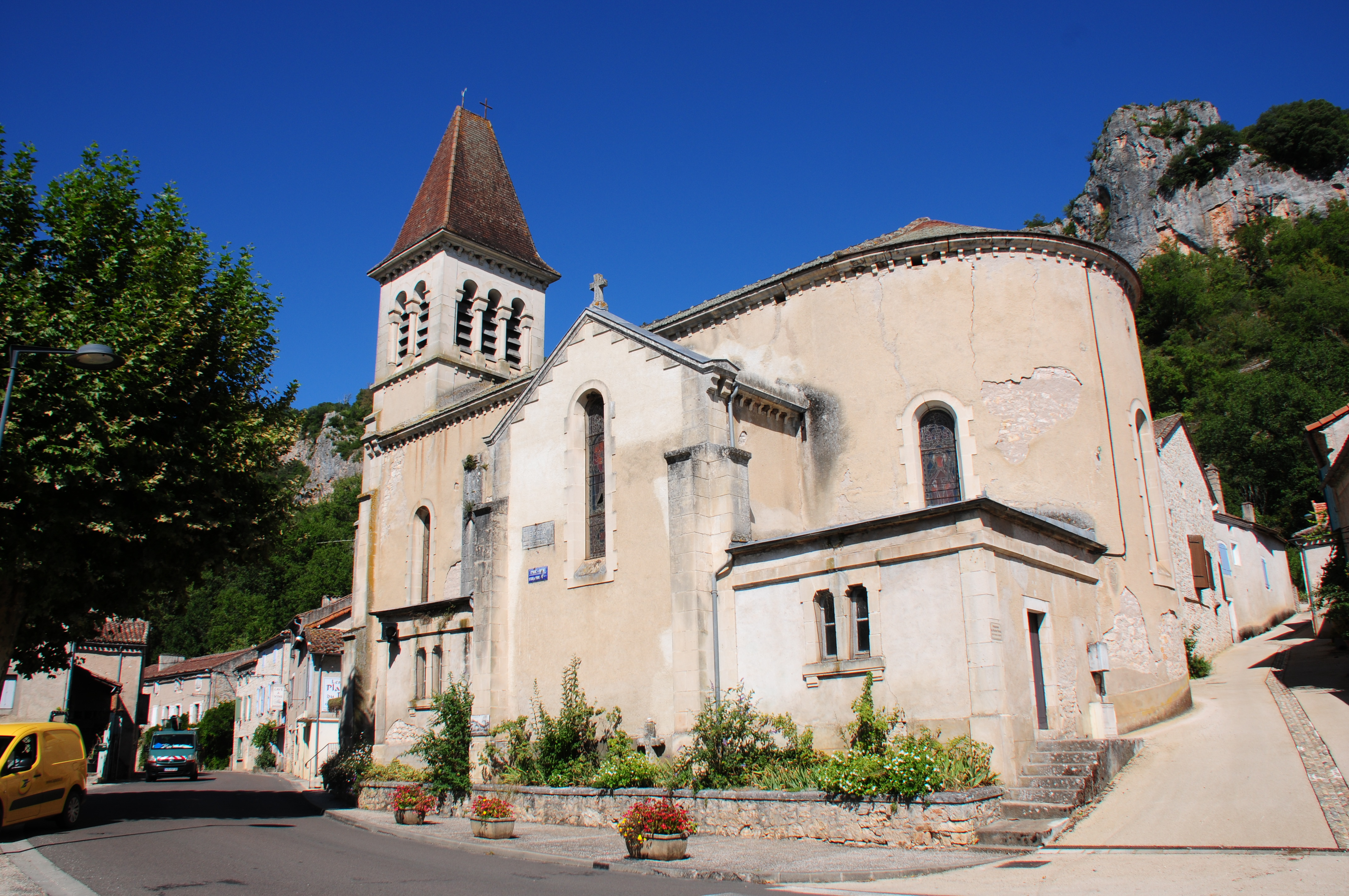 Church of Saint-Gery along the Lot river at 8 September 2015